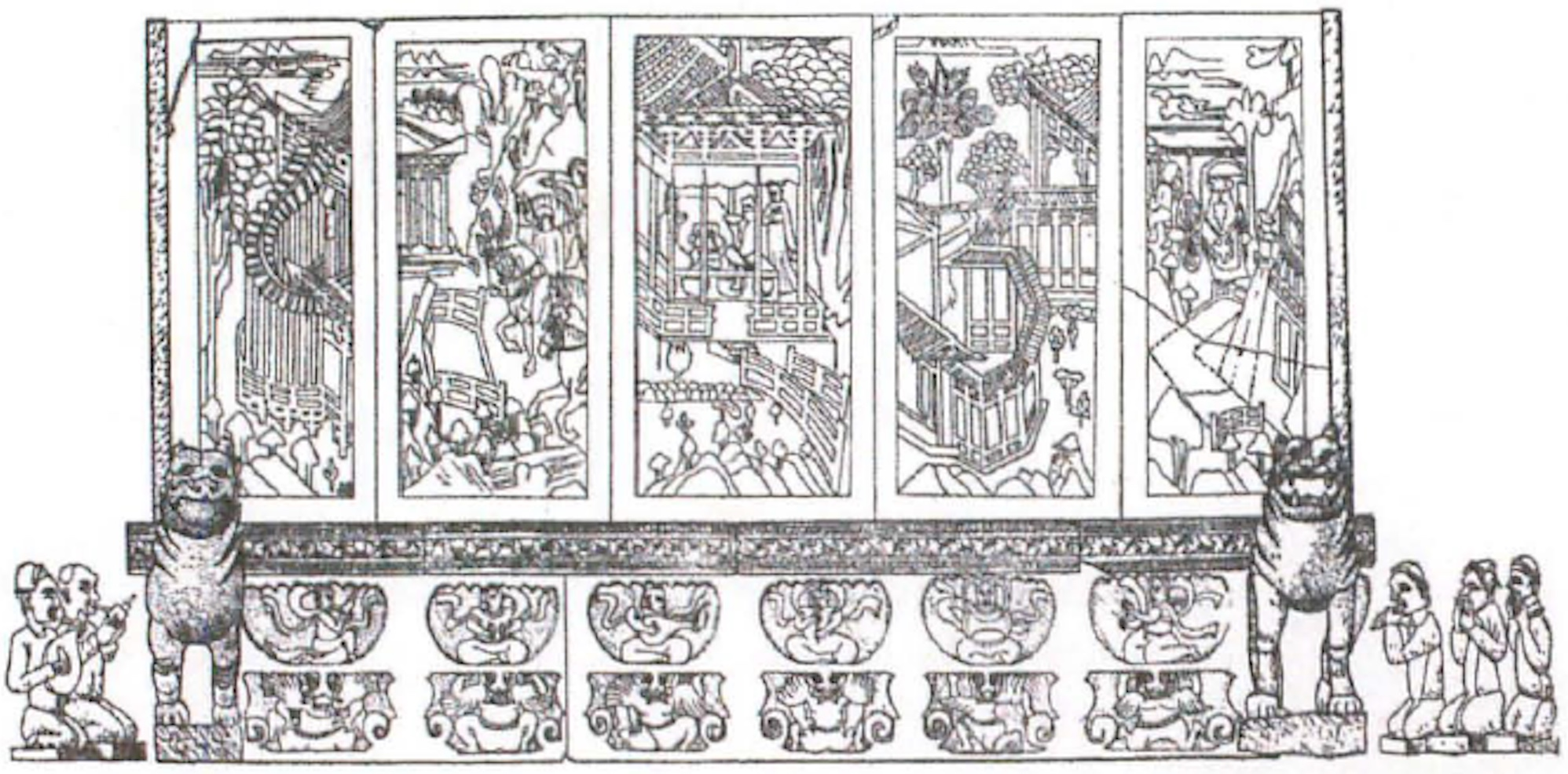 Drawing of the five granite panels from the back of the Sui funerary couch resting on the decorated base supported by two lion sculptures, found at Shih-ma-pʻing, in the city of Tʻien-shui, Kan-su Province.